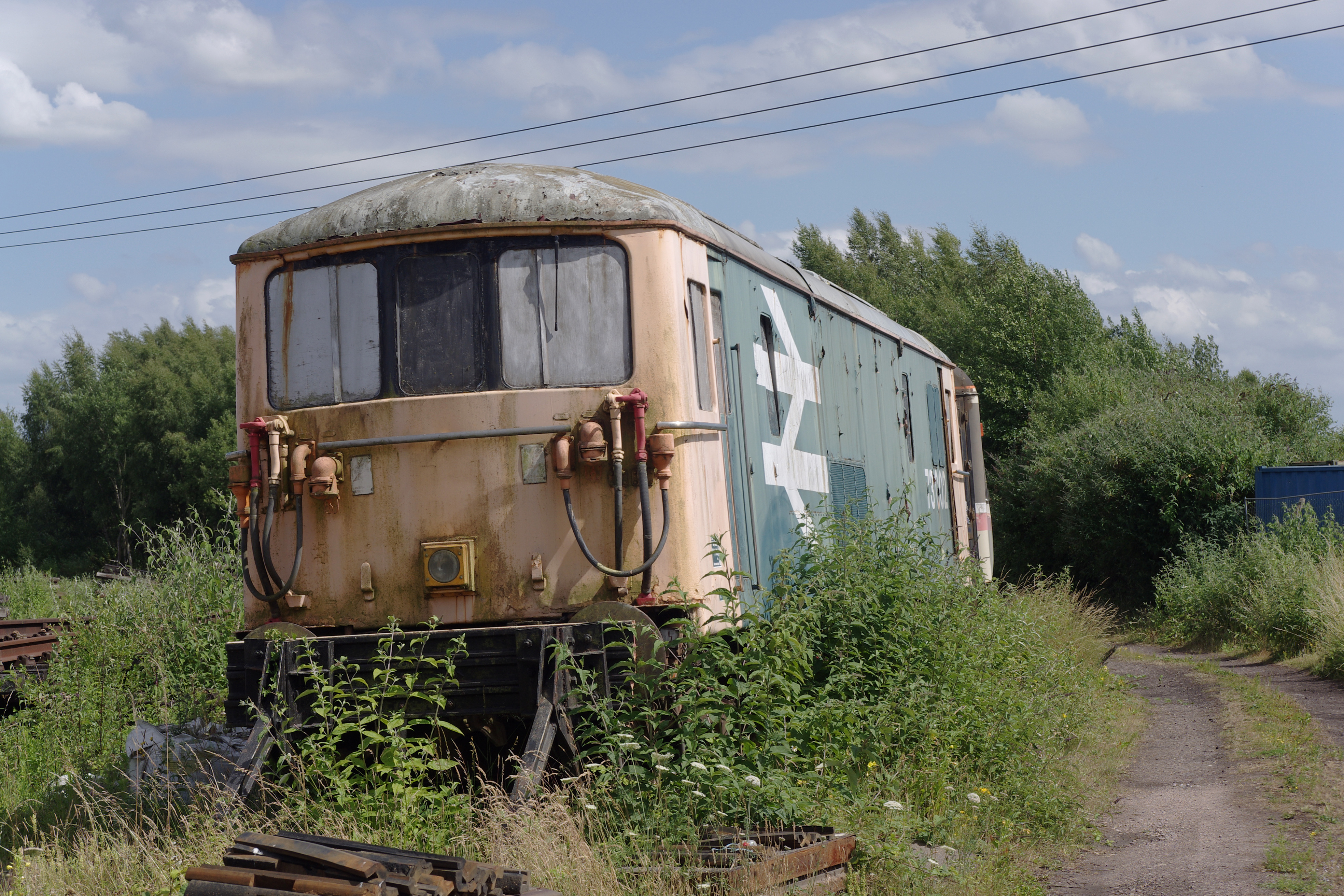 73002 stands abandoned at Lydney Junction railway station on the Dean Forest Railway.